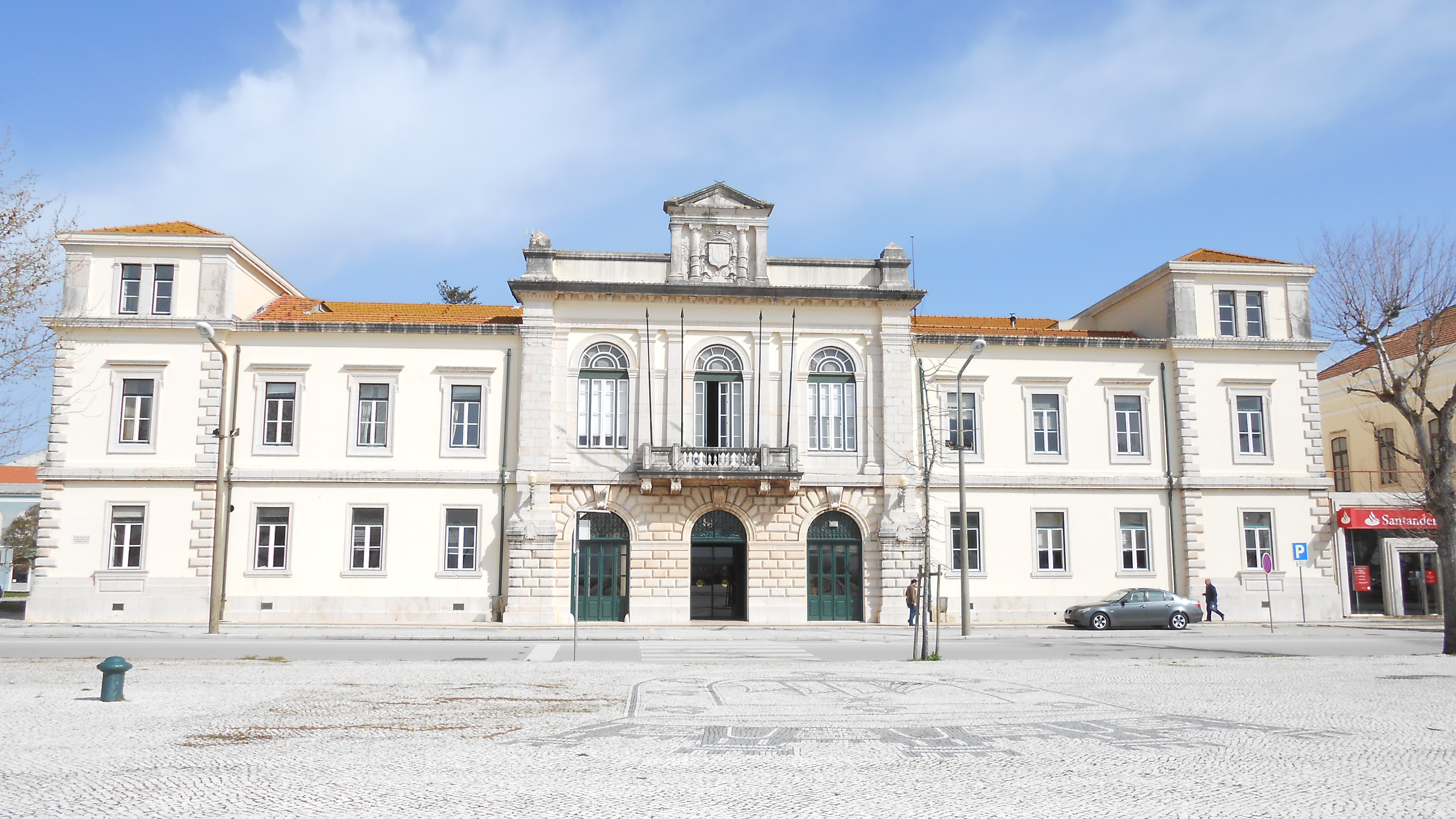 The town hall of Figueira da Foz, a seaside town in the portuguese district of Coimbra. It was built in 1897.